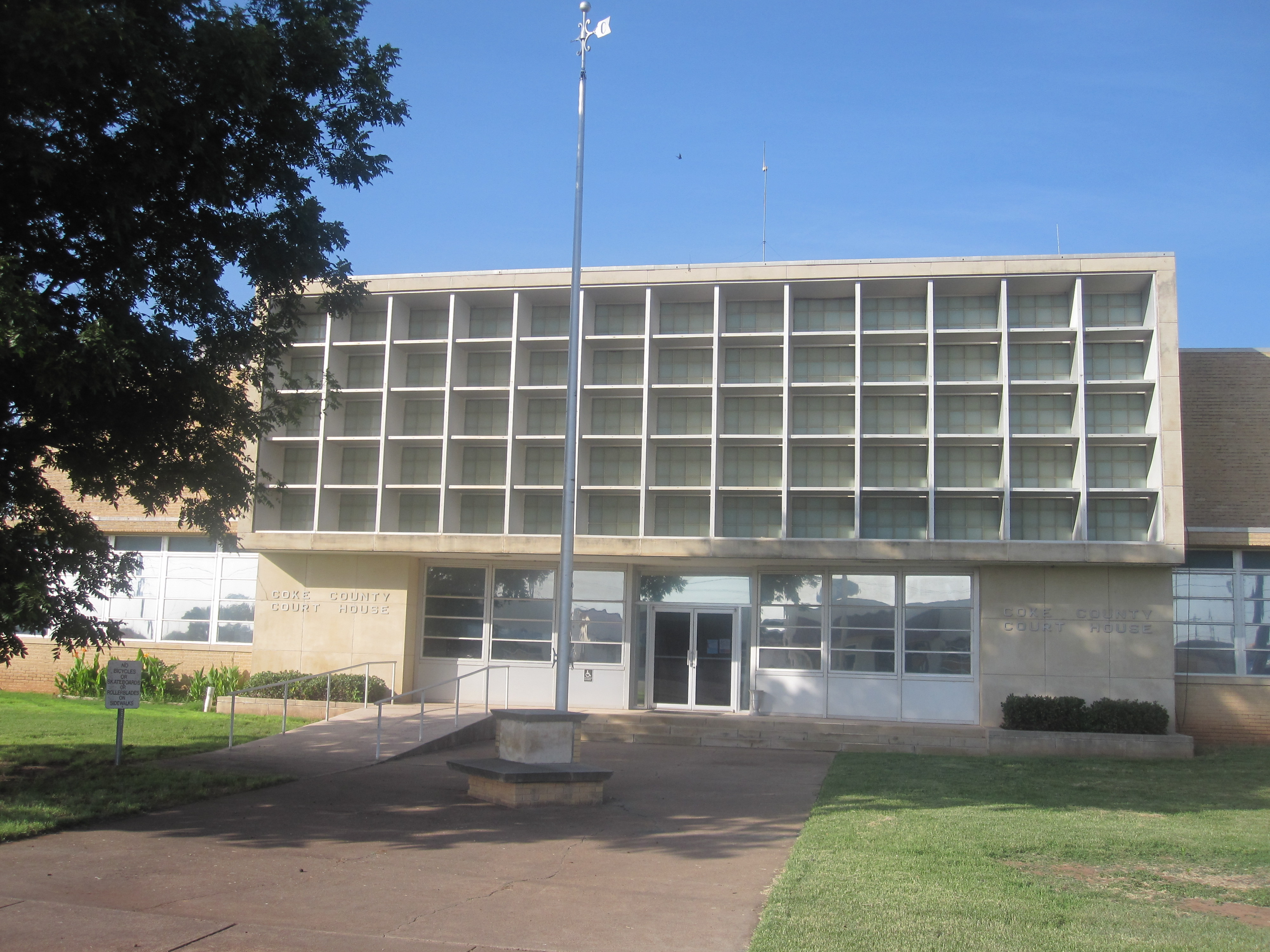 I took photo with Canon camera in Robert Lee, TX.